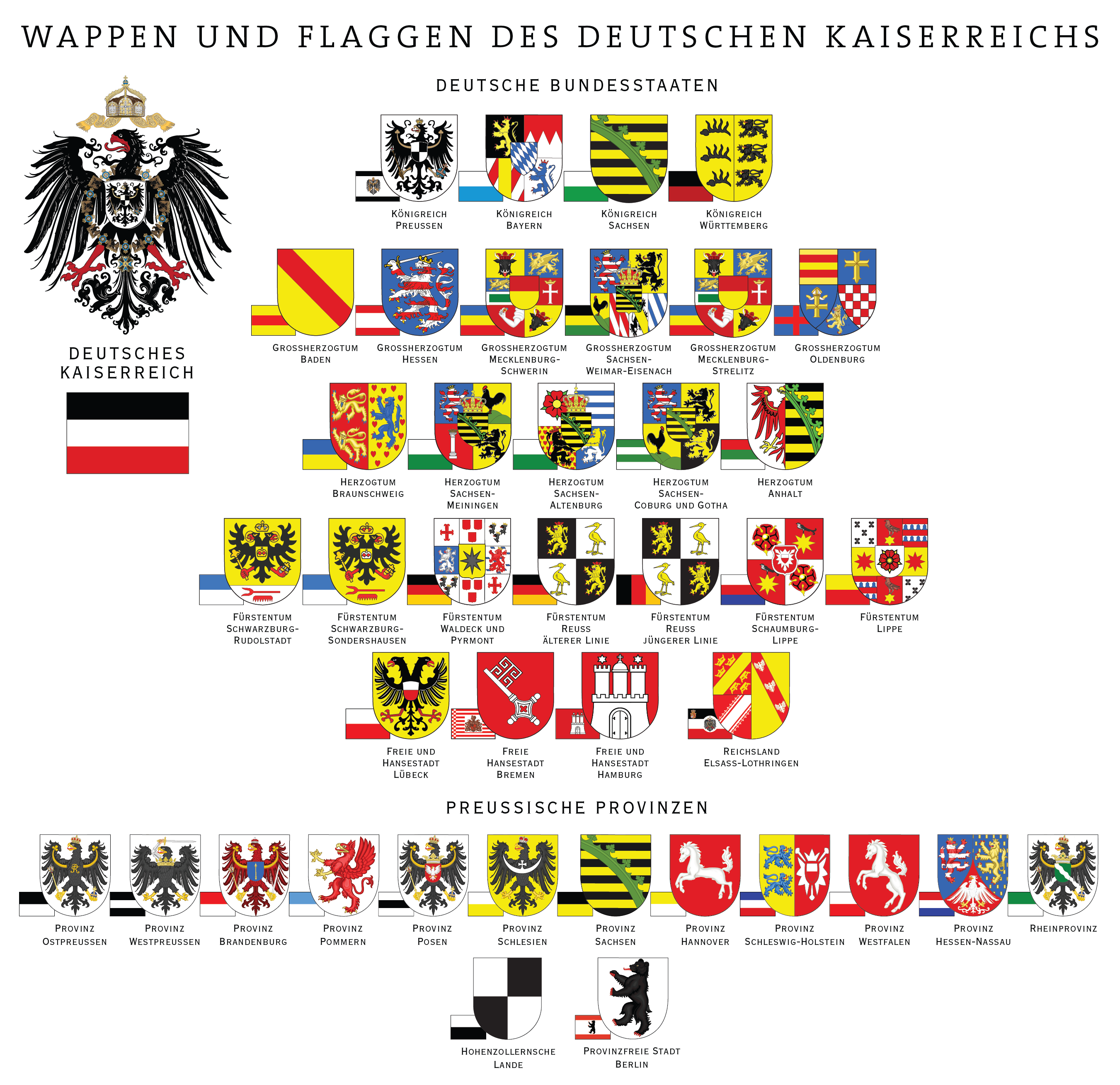 Coat of arms and flags of the German Empire's constituent states and the Prussian provinces in the year 1900